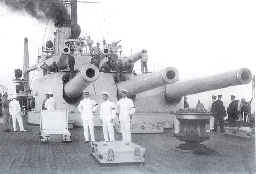 Gun turret on the SMS Tegetthoff of the Austro-Hungarian Navy